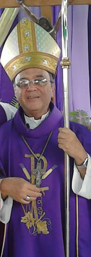 Mons. Rafael Conde, Obispo de Maracay.